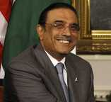 Close to President Asif Ali Zardari of Pakistan, in a picture when President George W. Bush shakes hands with President Asif Ali Zardari of Pakistan during their meeting Tuesday, Sept. 23, 2008, at The Waldorf-Astoria Hotel in New York. Said President Bush, "Pakistan is an ally, and I look forward to deepening our relationship... Your words have been very strong about Pakistan's sovereign right and sovereign duty to protect your country, and the United States wants to help.